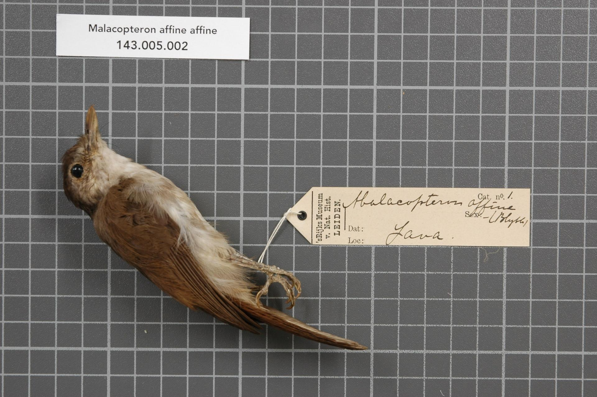 Malacopteron affine affine (Blyth, 1842)